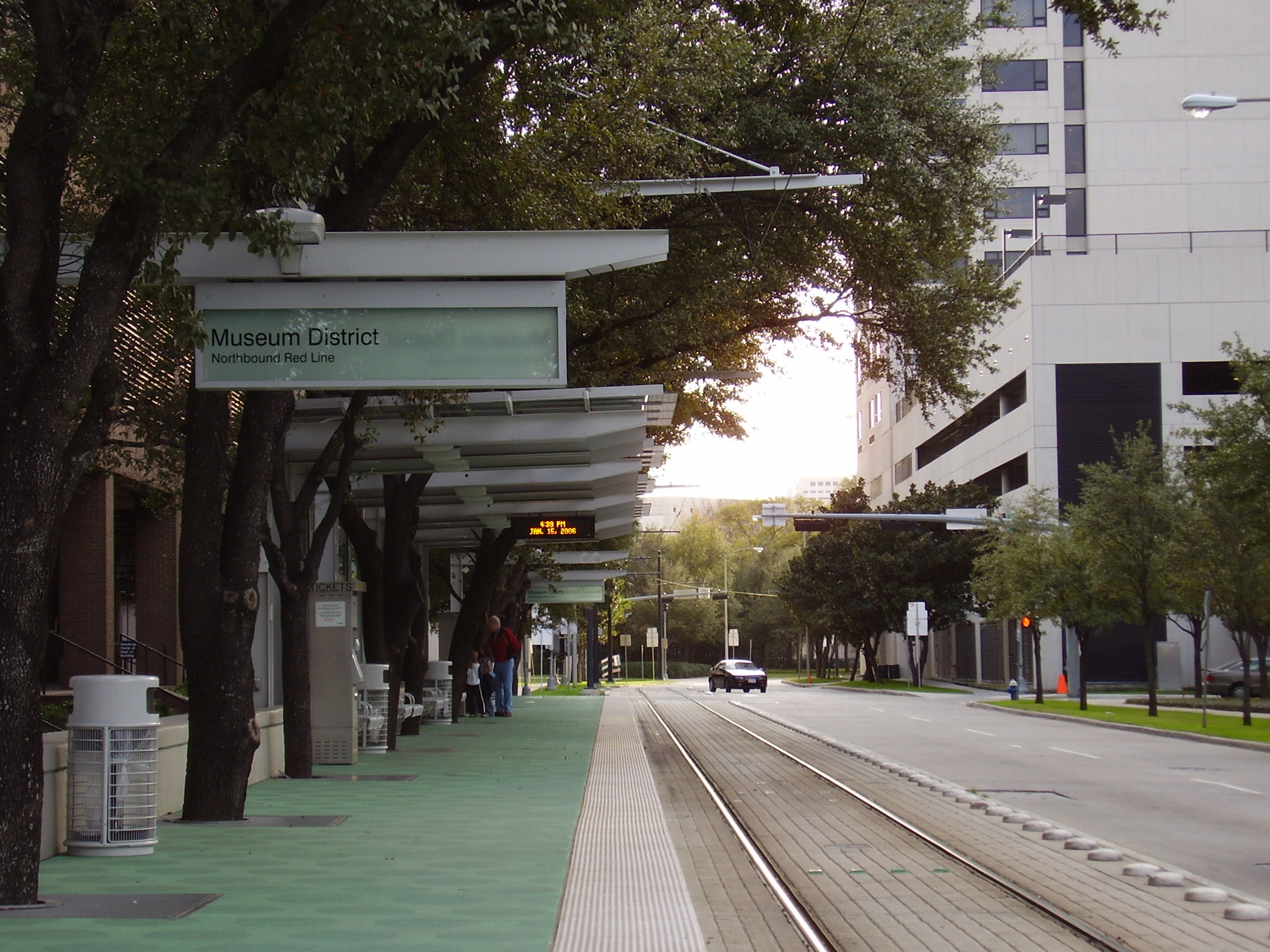 Taken by WhisperToMe